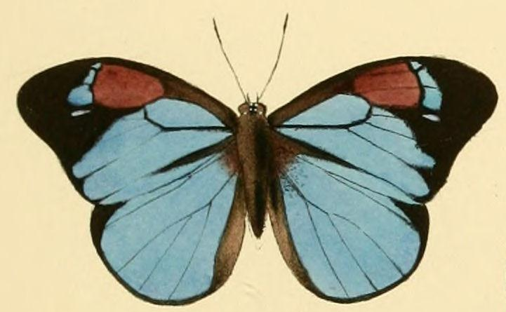 Plate: Supplement Ia Epitola honorius. Figs. 3 ♀, 4, 5 ♂. Accepted as Aethiopana honorius (Fabricius, 1793).